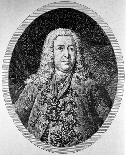 Engraved by Johan Stenglin after the original oil portrait by G-C. Grooth. Grooth painted his portrait not later than 1748, when Lestocq was banished from St.Petersburg (Grooth himself died soon). Stenglin worked in the 1760s, and the print was, most likely, commissioned not earlier than 1763 (when Lestocq was pardoned).